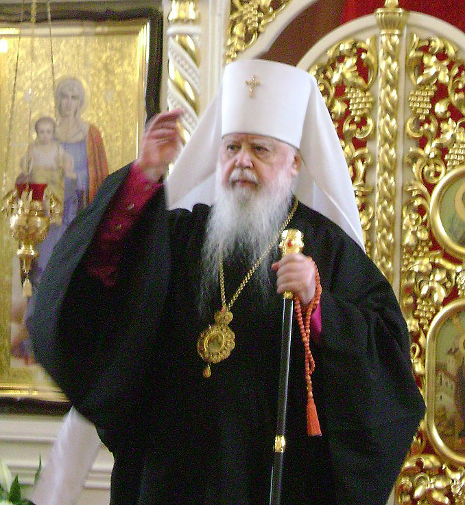 Metropolitan Nikolay of Izhevsk and Udmurtia in the Church of Transfiguration in Glazov (Udmurtia)